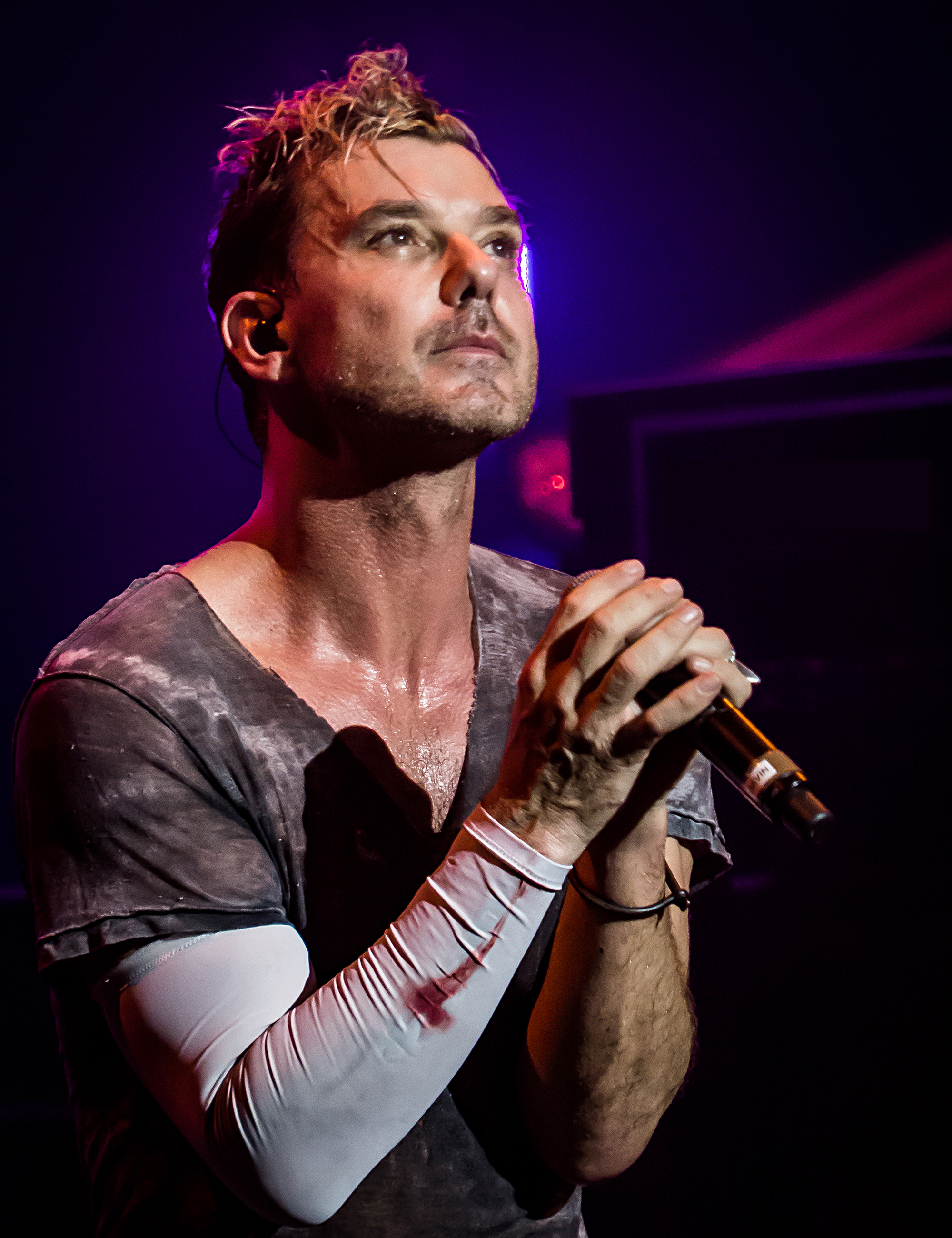 Bush at The Wiltern